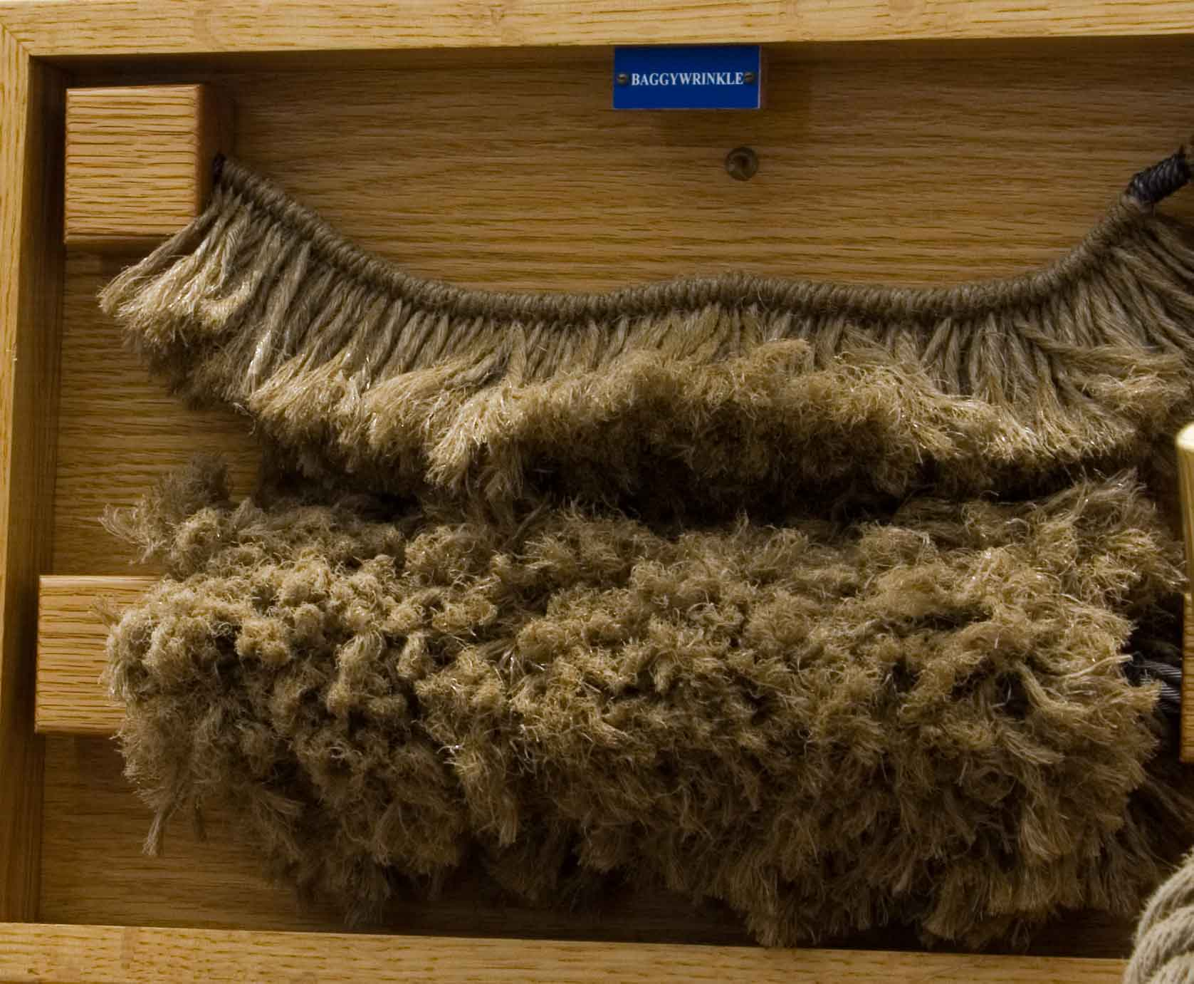 Picture taken at USCG CGC Eagle